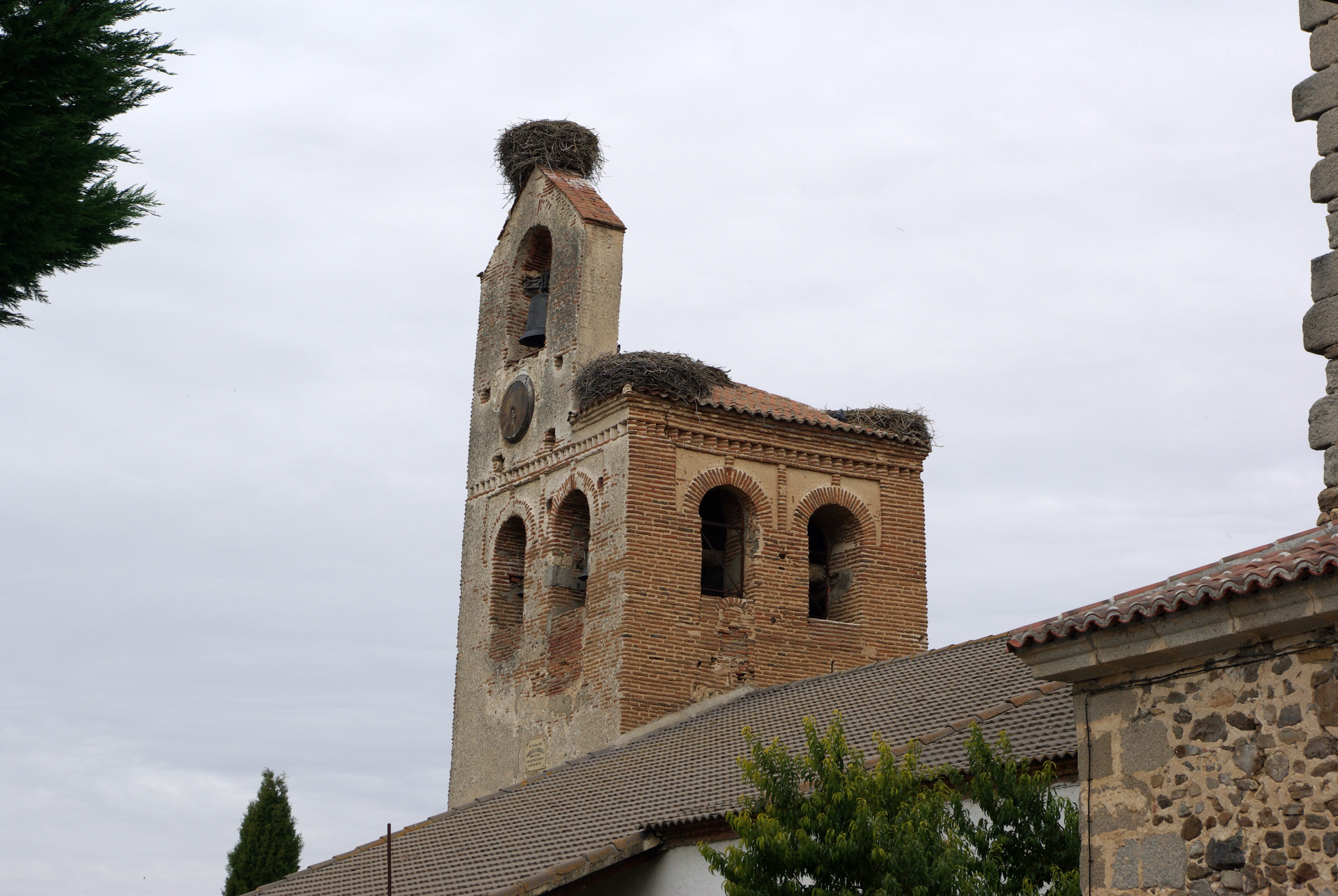 Bell tower in Maello. Ávila, Spain.